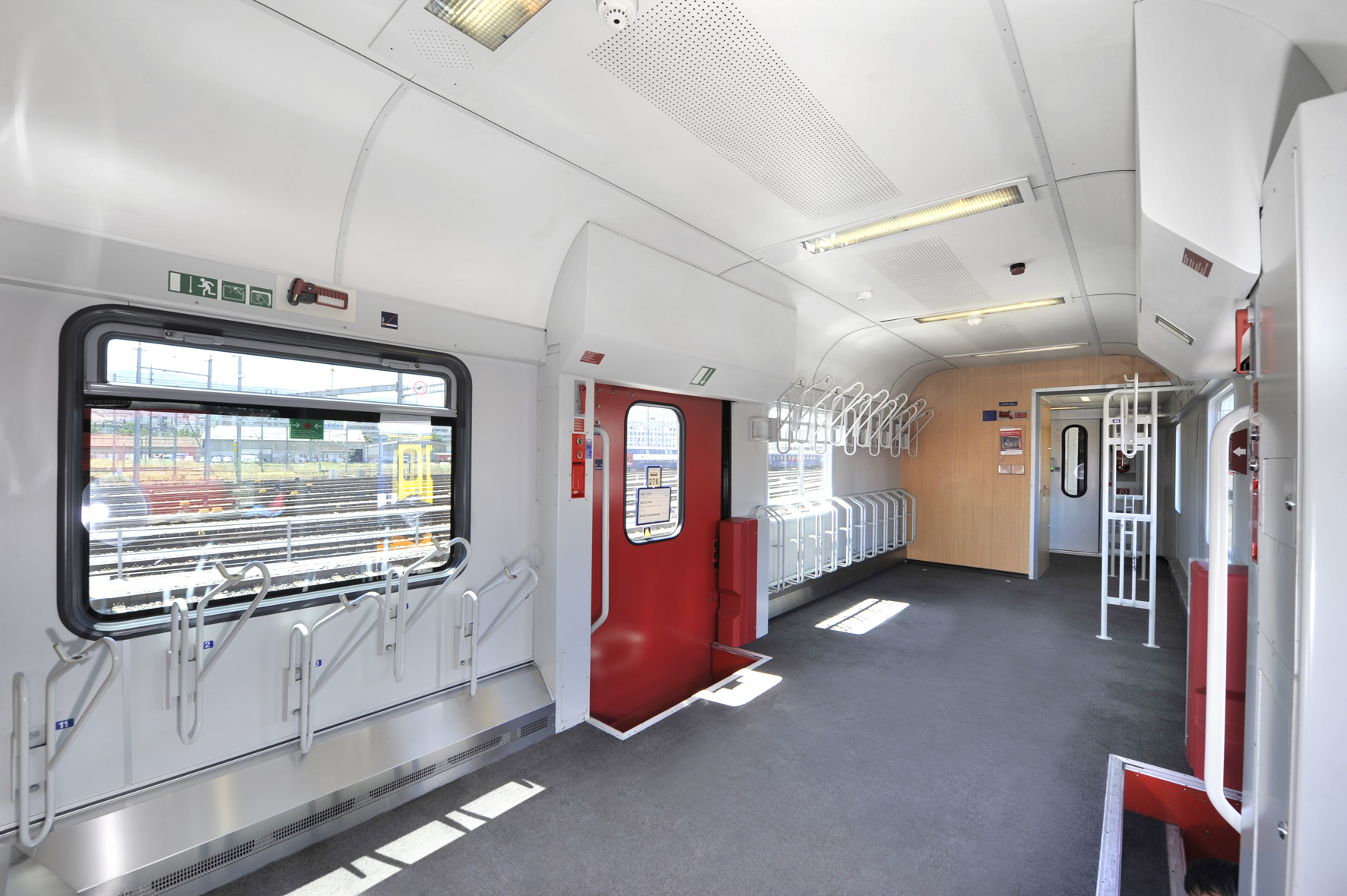 City Night Line ("Half luggage car"): compartment for bicycles, ski, etc.